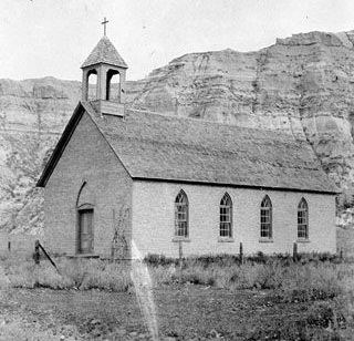 Photographic postcard of St. Mary's Catholic Church, Medora This work is in the public domain because it was published in the United States between 1923 and 1977 and without a copyright notice. Unless its author has been dead for several years, it is copyrighted in jurisdictions that do not apply the rule of the shorter term for US works, such as Canada (50 p.m.a.), Mainland China (50 p.m.a., not Hong Kong or Macao), Germany (70 p.m.a.), Mexico (100 p.m.a.), Switzerland (70 p.m.a.), and other countries with individual treaties. See this page for further explanation.